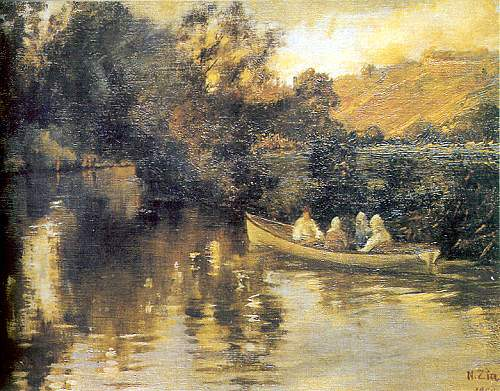 Göksu'da Gezinti (Nazmi Ziya Güran).